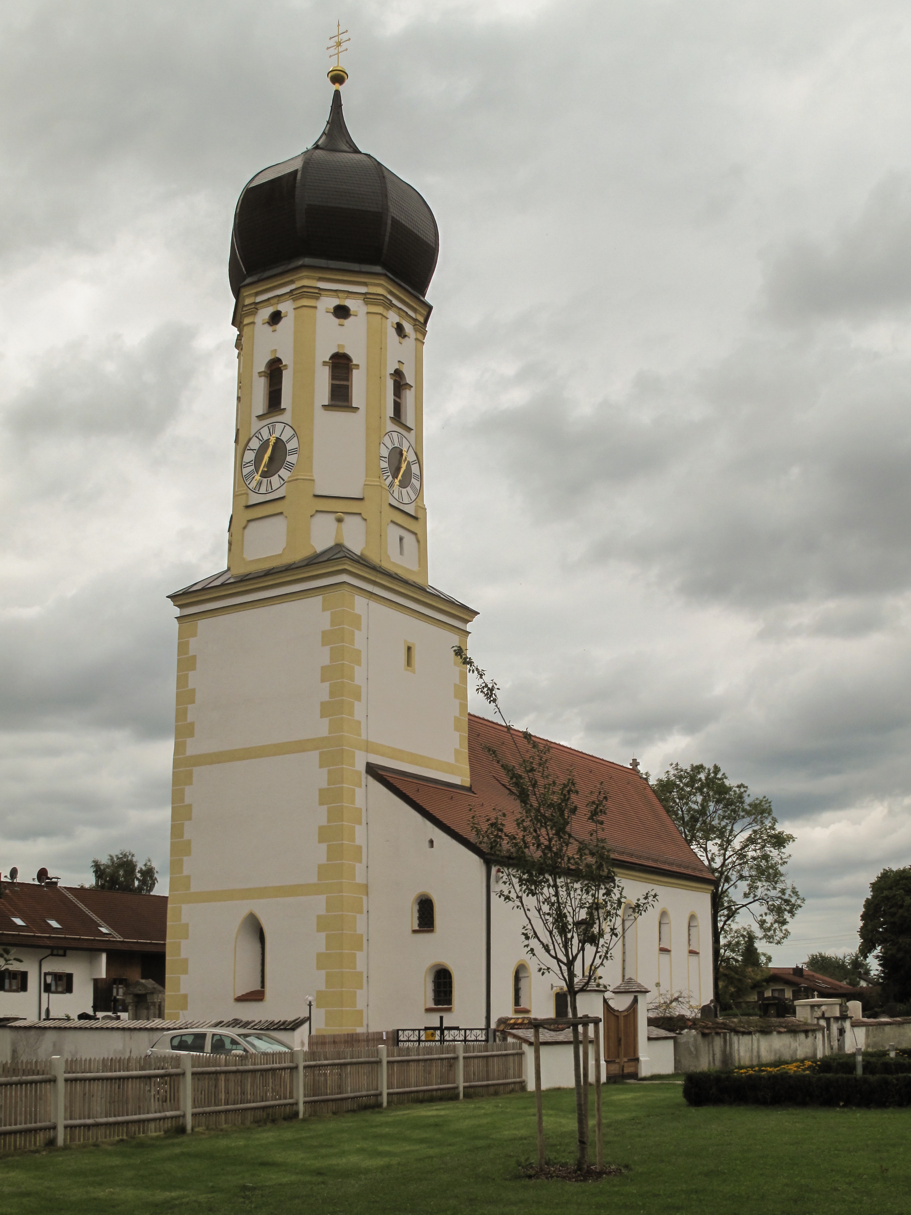 Aying, church: Pfarrkirche Sankt Andreas